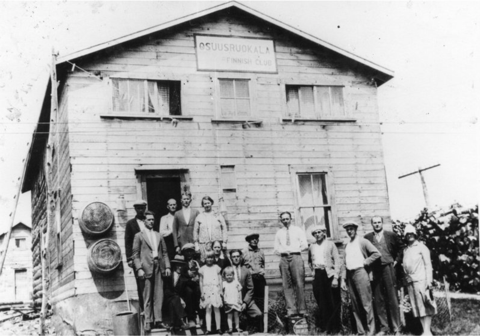 Finns outside their cooperative canteen in Rouyn, Quebec, year 1926.